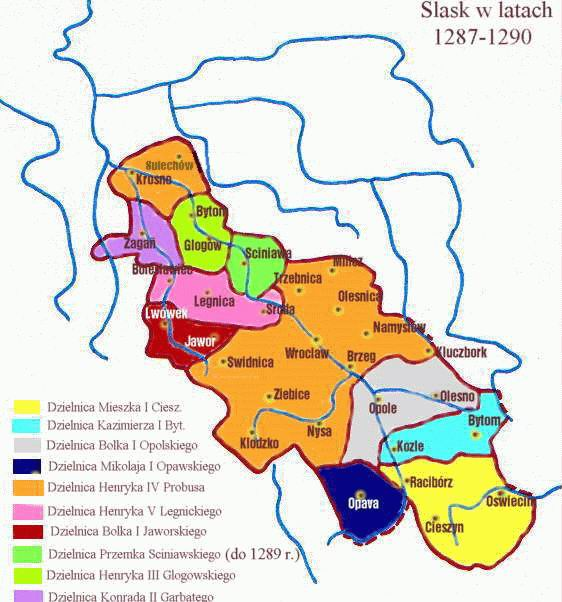 Political map of Silesia 1287-1290